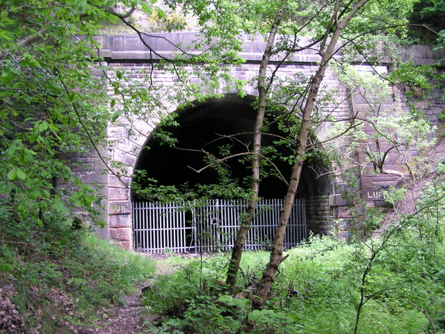 Open Tunnel Mouth on Disused Railway This is the other end of the tunnel that travels beneath Pudsey from Carlisle Road.The railway linked Bradford Exchange with Leeds Central and closed in the 1960's. From the tunnel the railway passes beneath a bridleway and then crosses Tyersal Beck on a high embankment.